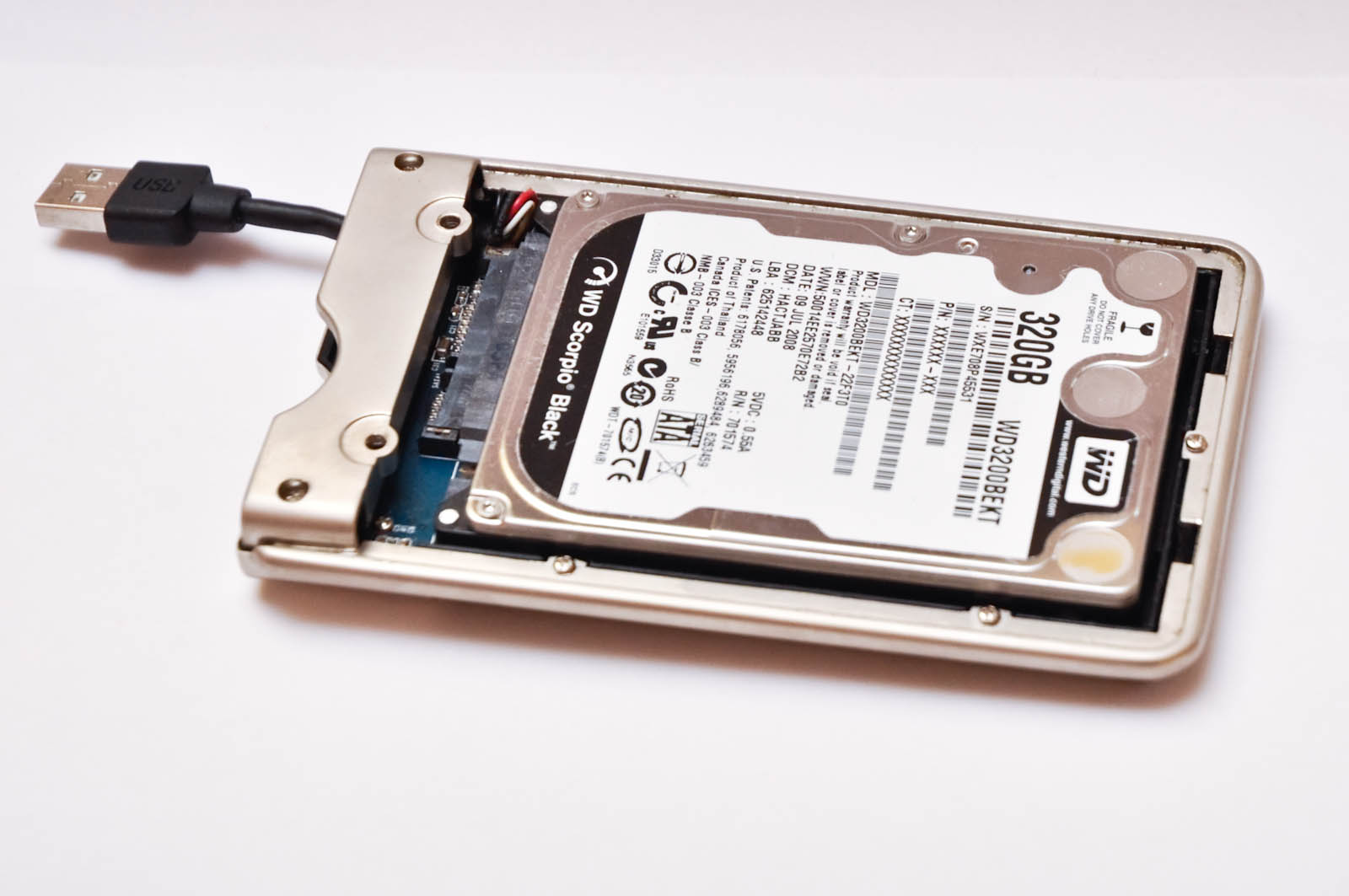 Harddisk in USB external box